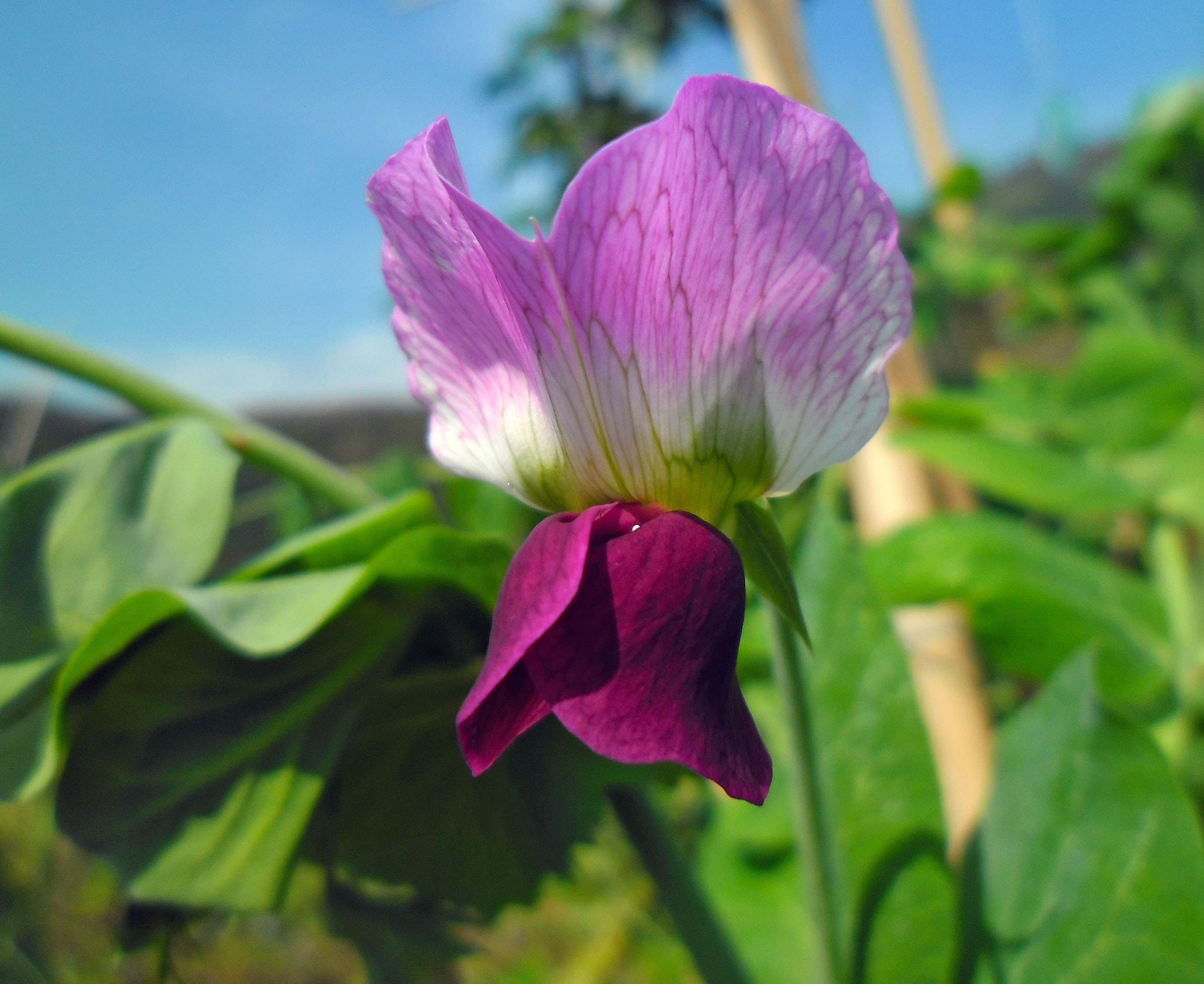 High Definition image of the Honey Pea variety's flower in Hong Kong, China. Taken by Earth100 on February 2, 2013.